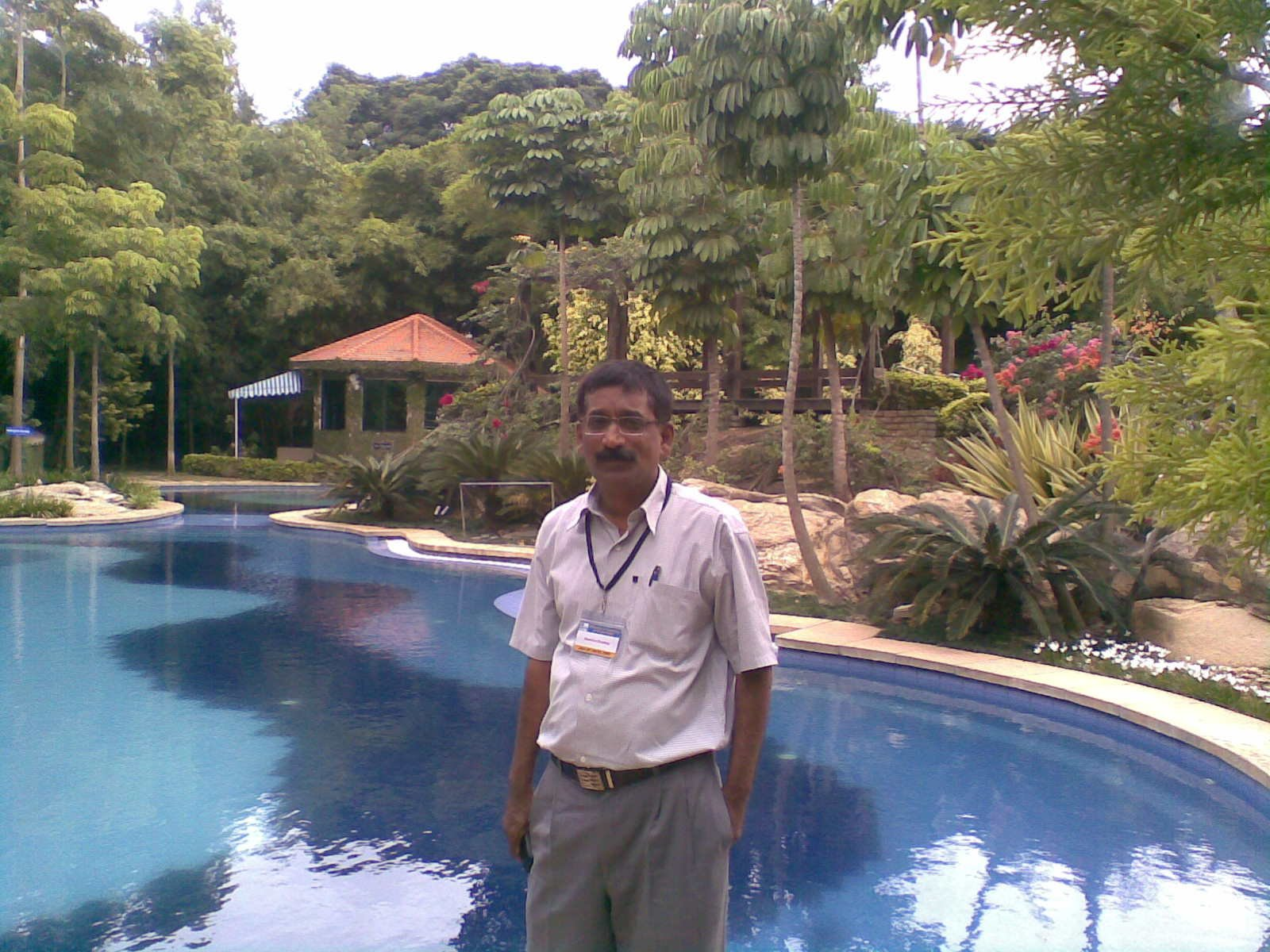 Dastikop in Workshop Venue